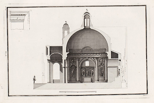 Little temple of Villa Barbaro in Maser by Andrea Palladio. Drawing by Ottavio Bertotti Scamozzi, 1783.